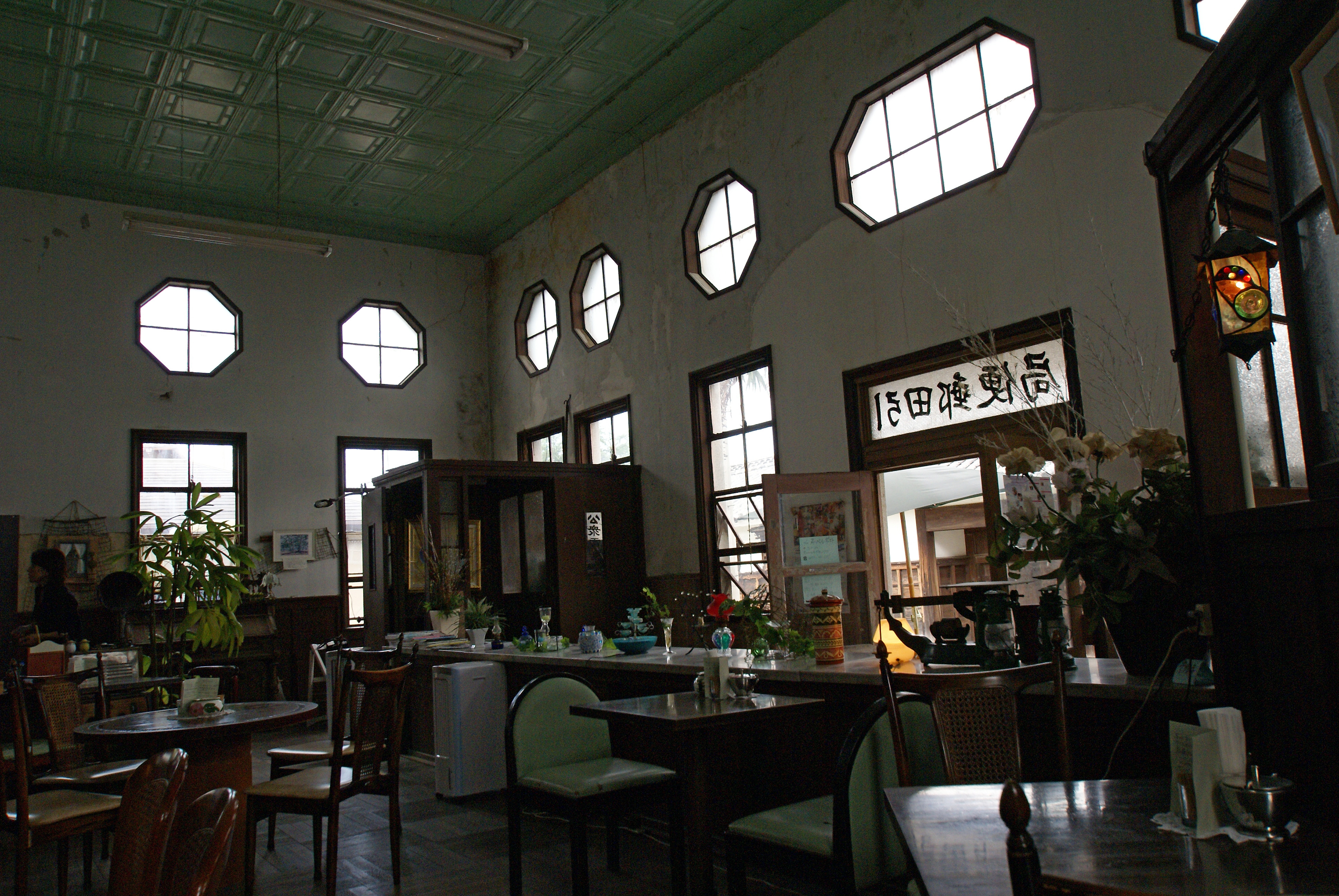 Old Hiketa Post Office in Hiketa, Higashikagawa, Kagawa prefecture, Japan